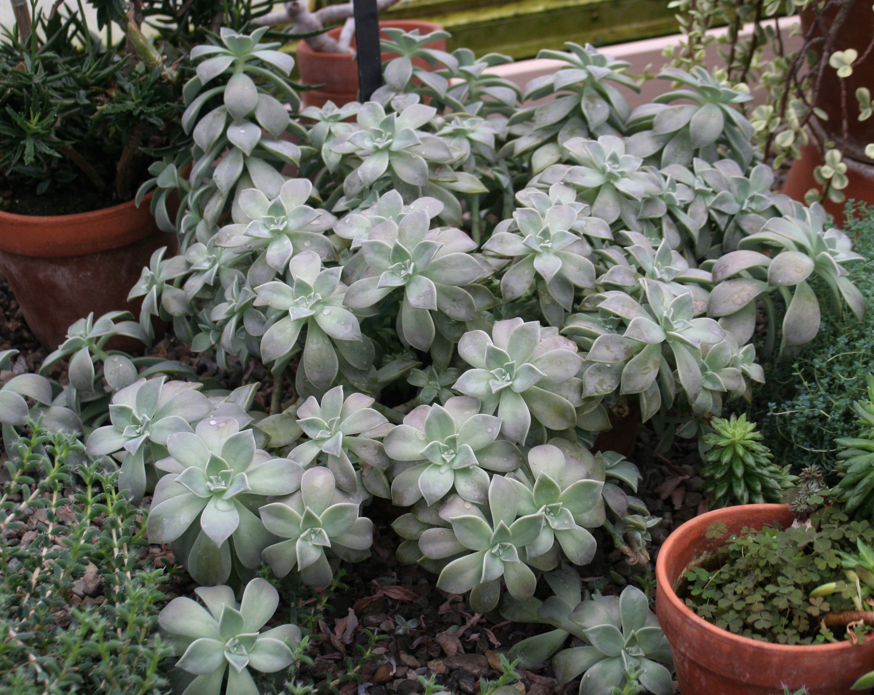 Graptopetalum paraguayense (Ghost plant) at the Buffalo and Erie County Botanical Gardens.